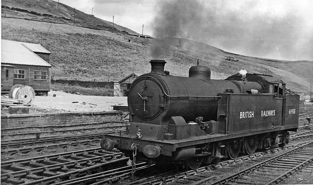 An 0-8-4T at Dunford Bridge Station. View eastward, towards Penistone on the Manchester - Sheffield via Woodhead main line. Ex-Great Central GCR Class 8H / LNER class S1 0-8-4T No. 69901 is passing the Works Offices at Dunford Bridge of the contractors building the New Woodhead Tunnel. The locomotive normally works on the hump at Wath Marshalling Yard and is heading west, leaving the Down Goods line, so is possibly heading to Gorton Works for repair.